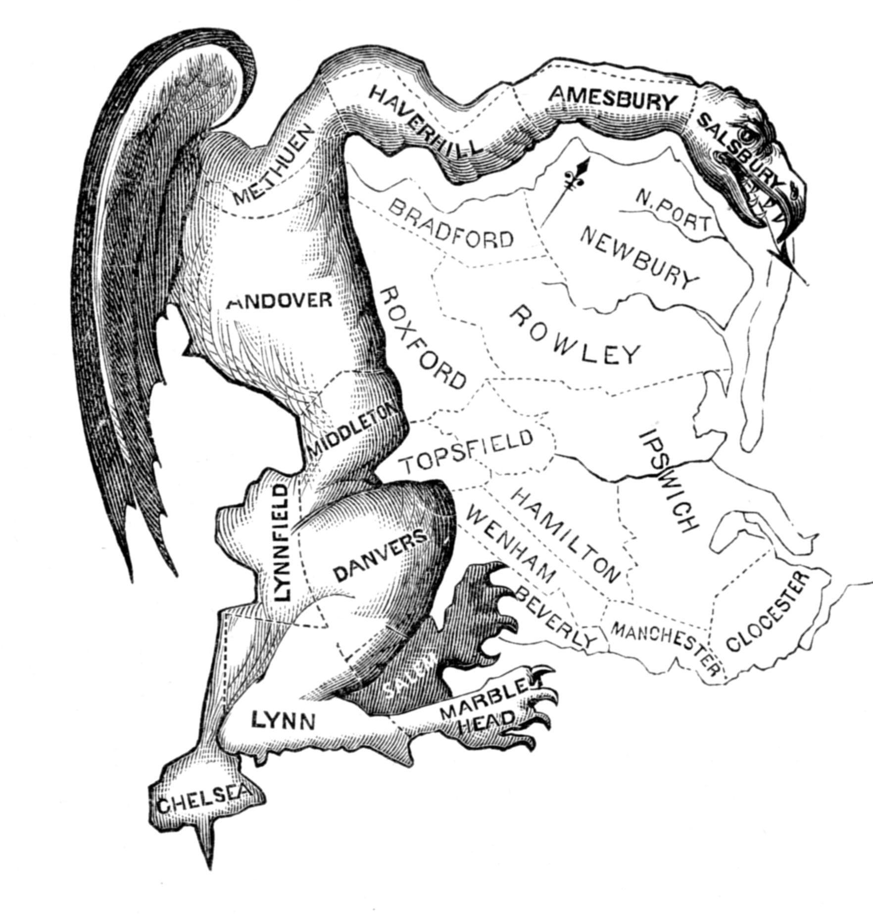 Original cartoon of "The Gerry-Mander", this is the political cartoon that led to the coining of the term Gerrymander. The district depicted in the cartoon was created by Massachusetts legislature to favor the incumbent Democratic-Republican party candidates of Governor Elbridge Gerry over the Federalists in 1812.